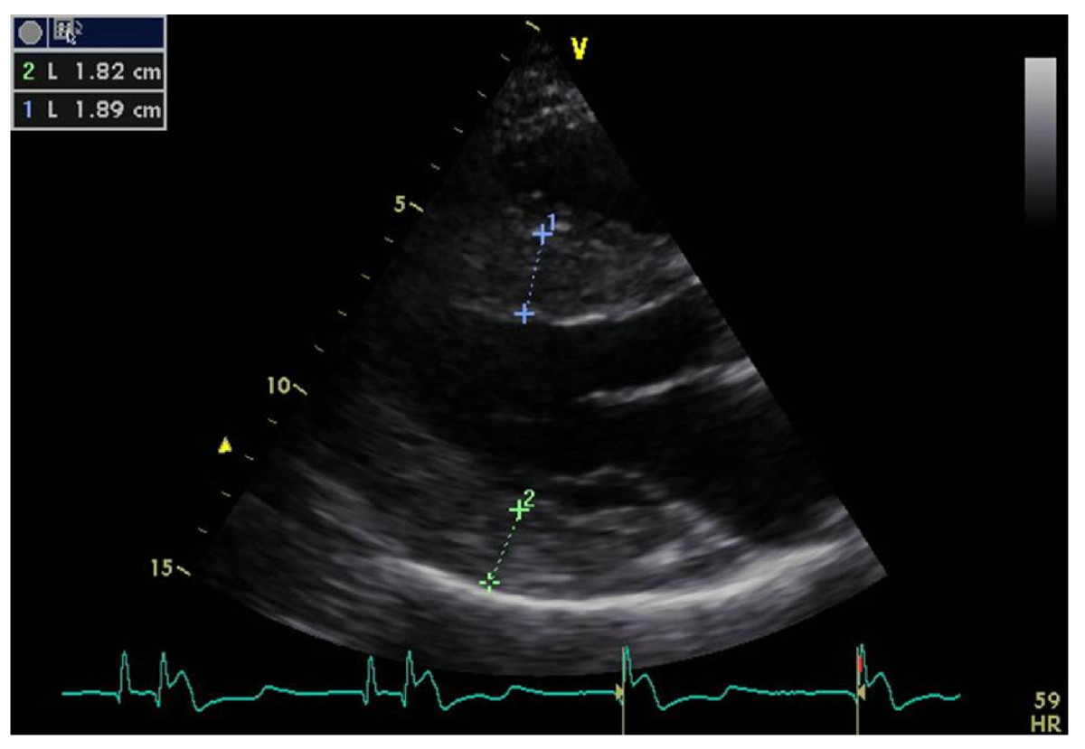 Echocardiography: parasternal long axis showing diffuse left ventricular hypertrophy with increased septal thickness. Courtesy: Pr Albert A. HAGEGE, University René Descartes, Paris, France.